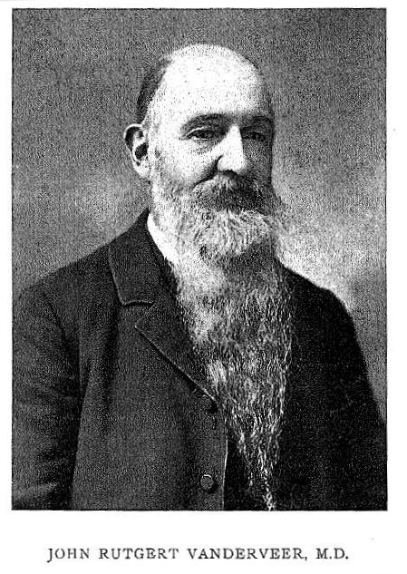 John Rutgert Vanderveer (1821-1898)